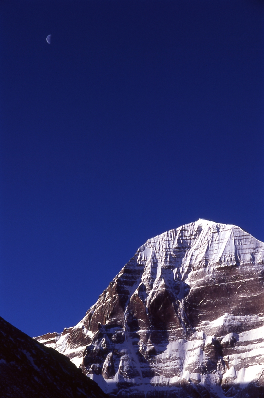 Mount Kairash, North face, morning.